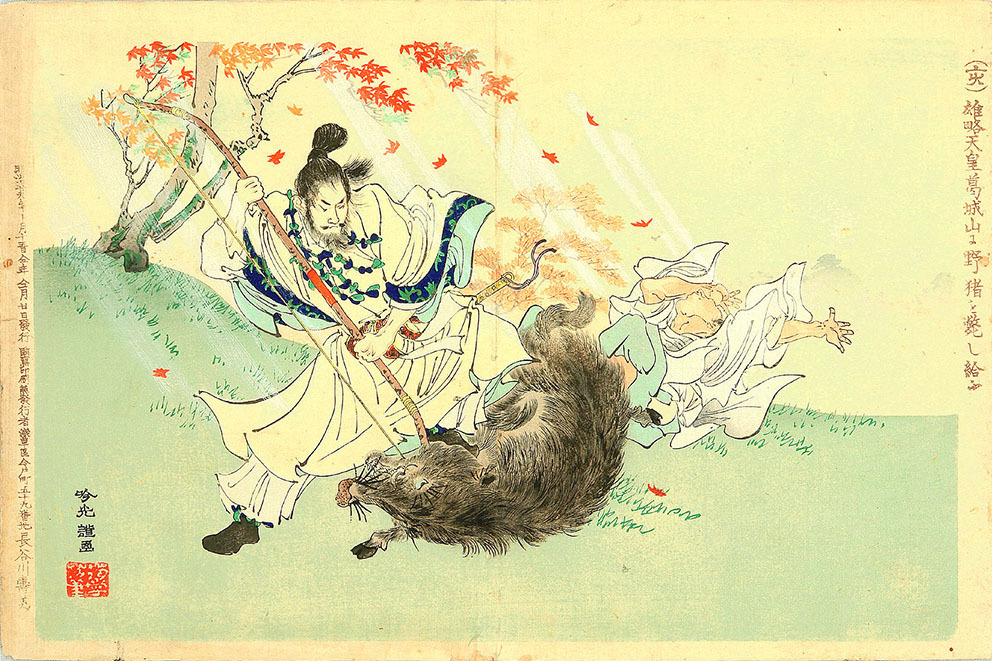 Emperor and Boar, by Ginko Adachi. Woodblock print depicting a hunting scene, where Emperor Yūryaku (later half 5th century) overpowers a large wild boar at Mount Katuragi in 461 AD.